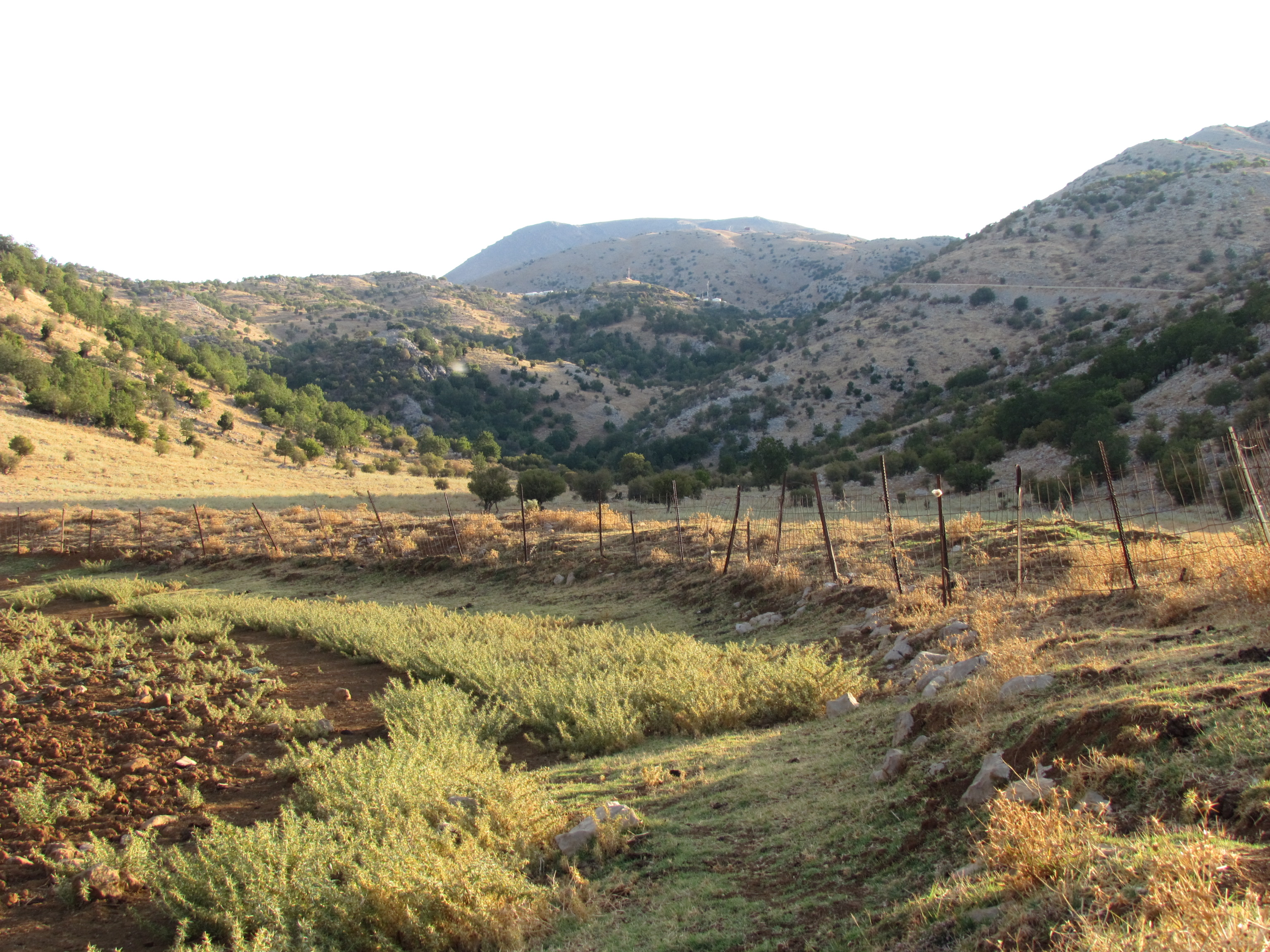 Mann Polje on the Hermon mountain